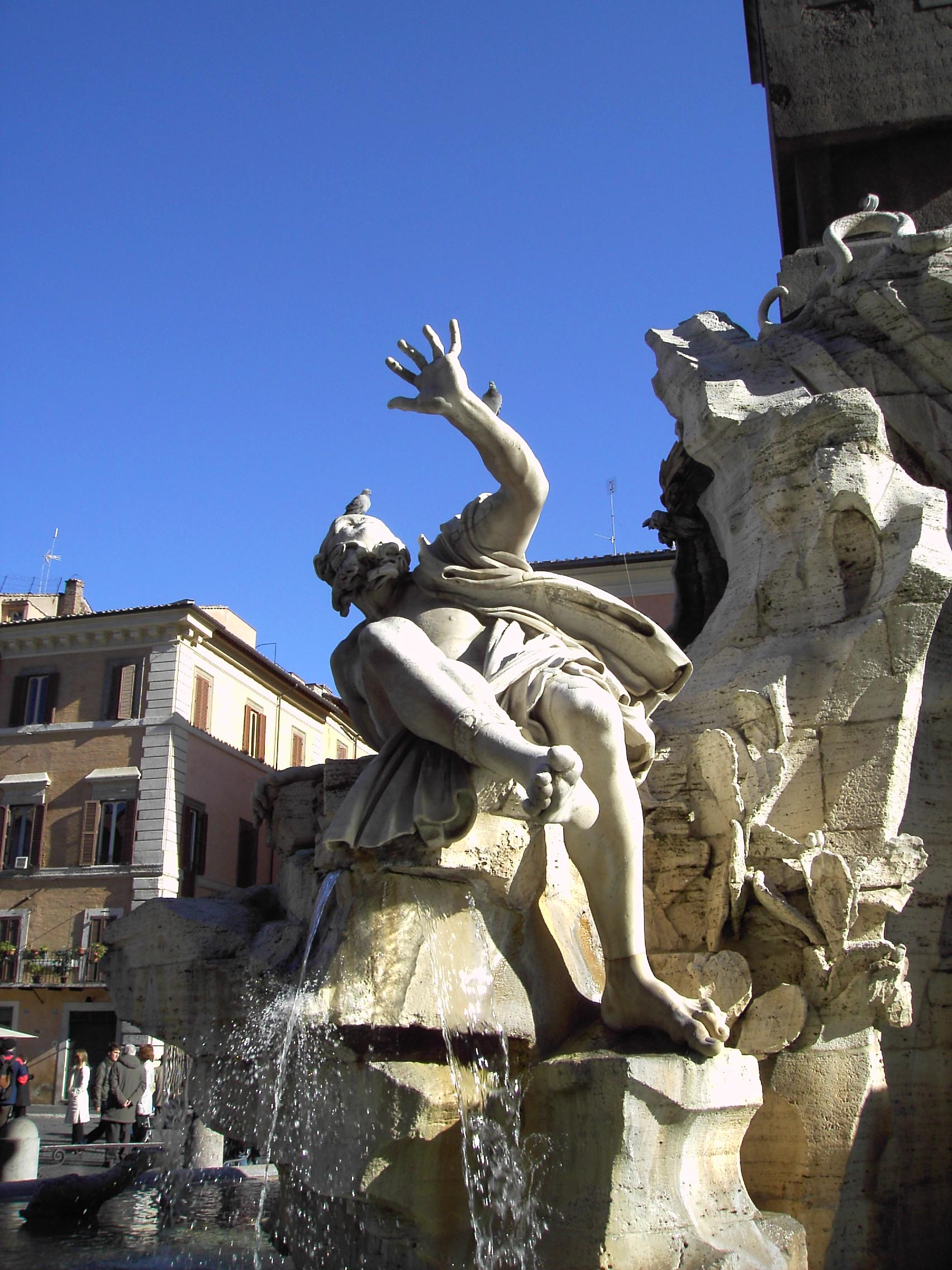 The river-god Río de la Plata by Gianlorenzo Bernini (1651), from the Fontana dei Quattro Fiumi in Rome.